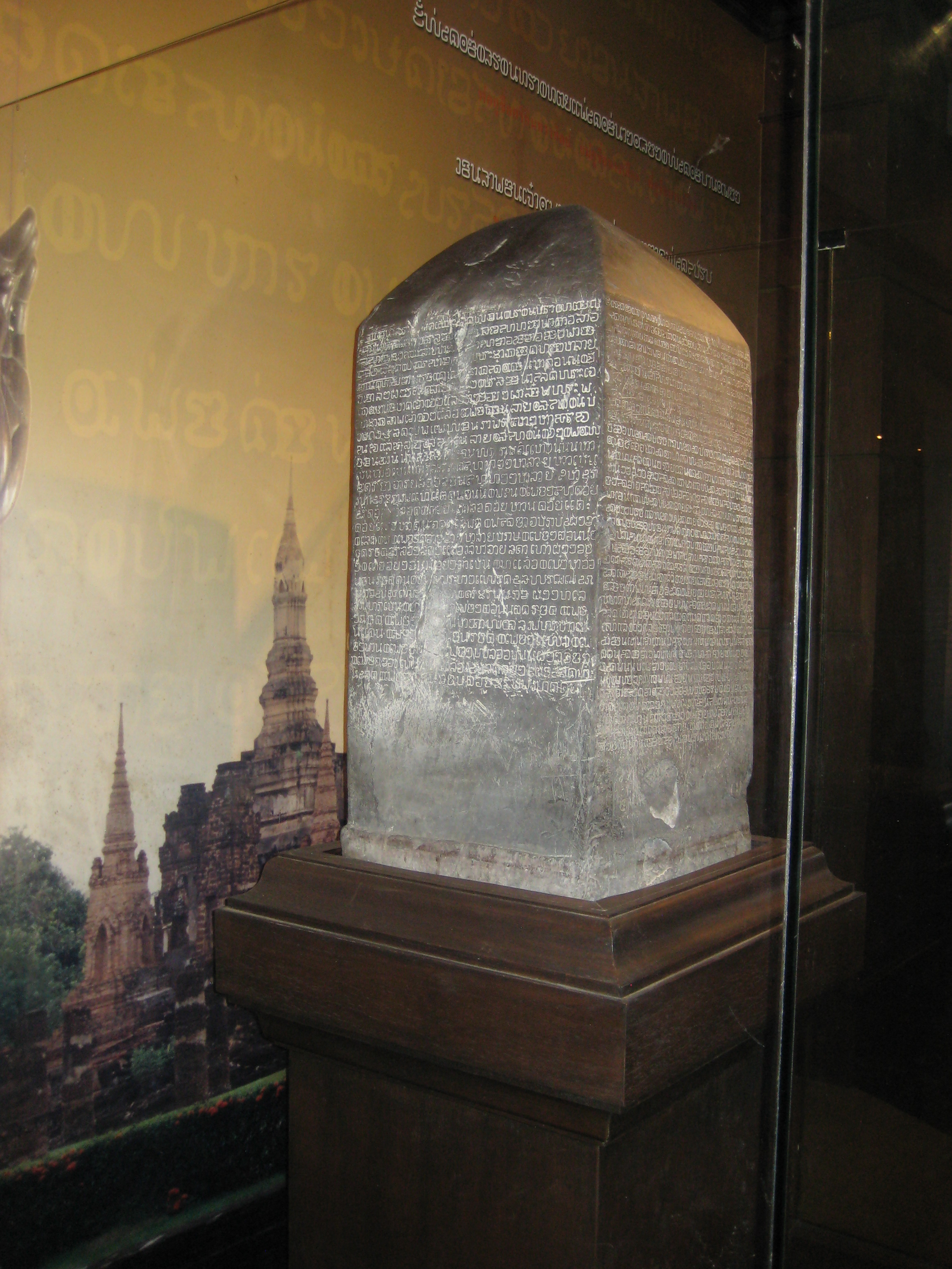 Name: Ram Khamhaeng Inscription (จารึกพ่อขุนรามคำแหง) Other names: Inscription 1 (จารึกหลักที่ ๑) Language: Thai Script: Sukhothai Thai Creator: Ram Khamhaeng, king of Sukhothai Created: 1835 Buddhist Era (1292/93 Common Era) Discovered: 2376 Buddhist Era (1833/34 Common Era) Present location: Bangkok National Museum